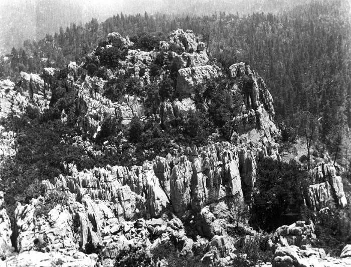 Weathered Triassic Hosselkus limestone of Brock Mountain. Shasta County, California. 1902. - ID. Stanton, T. W. 095 - stw00095 - U.S. Geological Survey - Public domain image